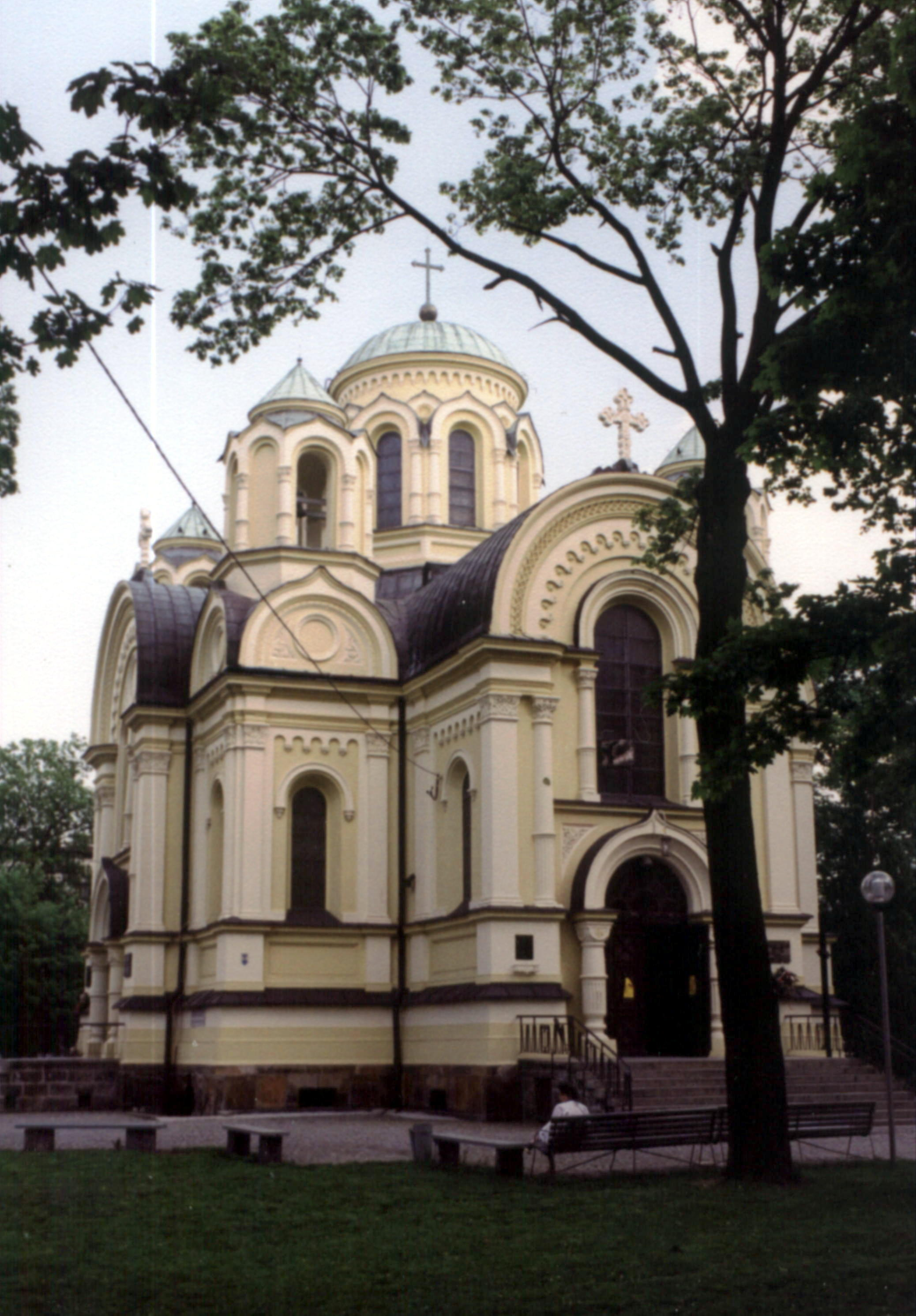 St. James the Apostole's church in częstochowa